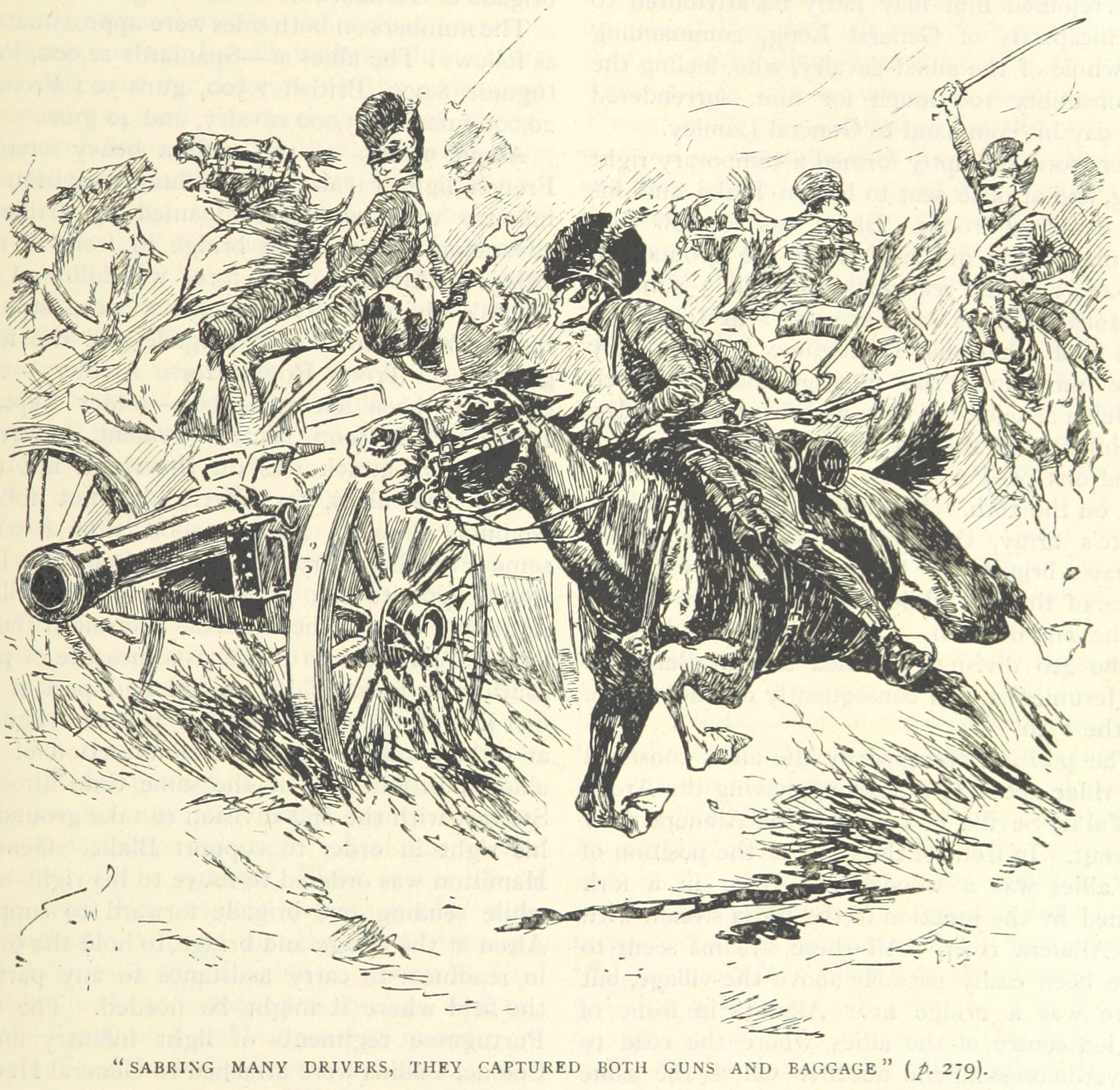 Members of the British 13th Light Dragoons attack French horse artillery at the Battle of Albuera.